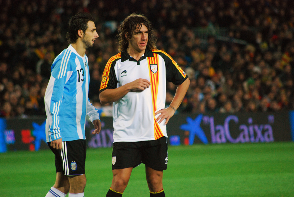 Argentine defender Nicolás Pareja with Spanish Charles Puyol, during a match between Catalunya and Argentina national team, in 2009.